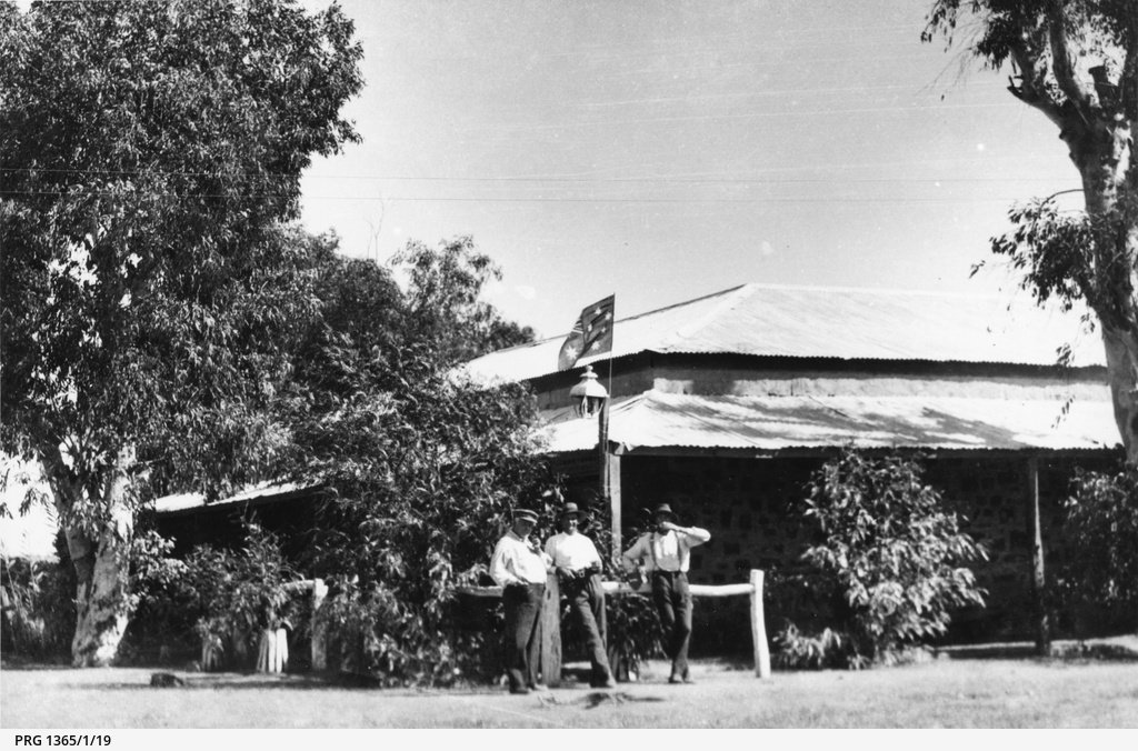 Stuart Arms Hotel, Stuart (now Alice Springs) in 1924. PRG-1365-1-19